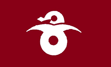 Flag of Yachiyo Ibaraki